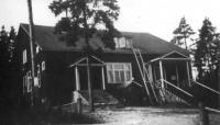 People's house/ Community centre in Ylöjärvi, Finland